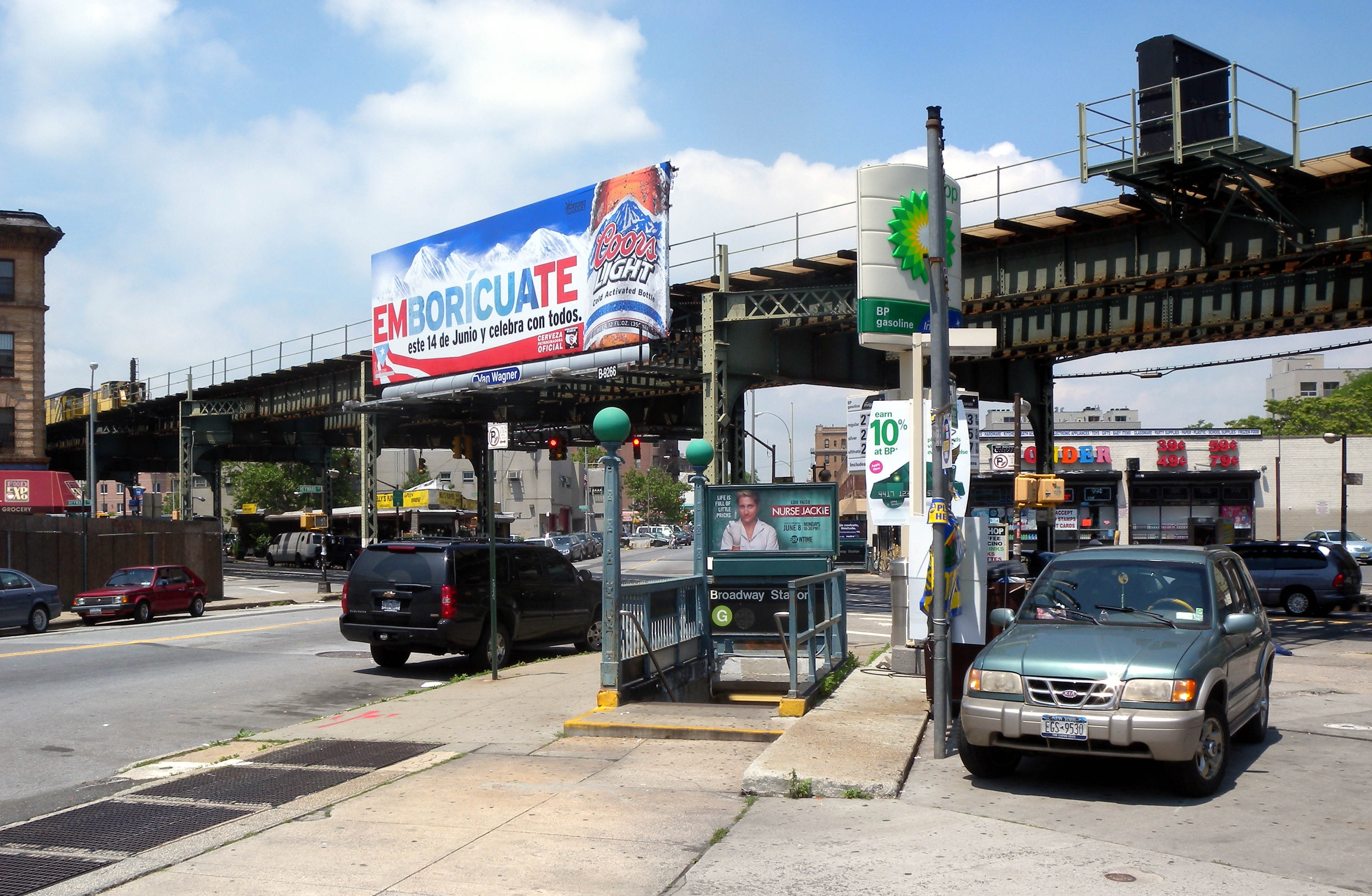 Looking northwest along Union Avenue at Broadway Station of IND Crosstown Line on a sunny midday with elevated Broadway Line in background.